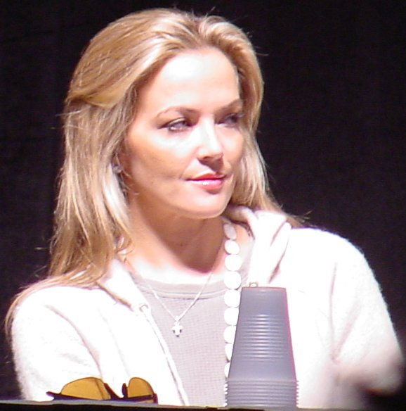 American actress Brandy Ledford (cast as Zaren on the science fiction television program Stargate SG-1 and Norina on Stargate Atlantis) talking about her time on the shows at Dragon Con 2006.